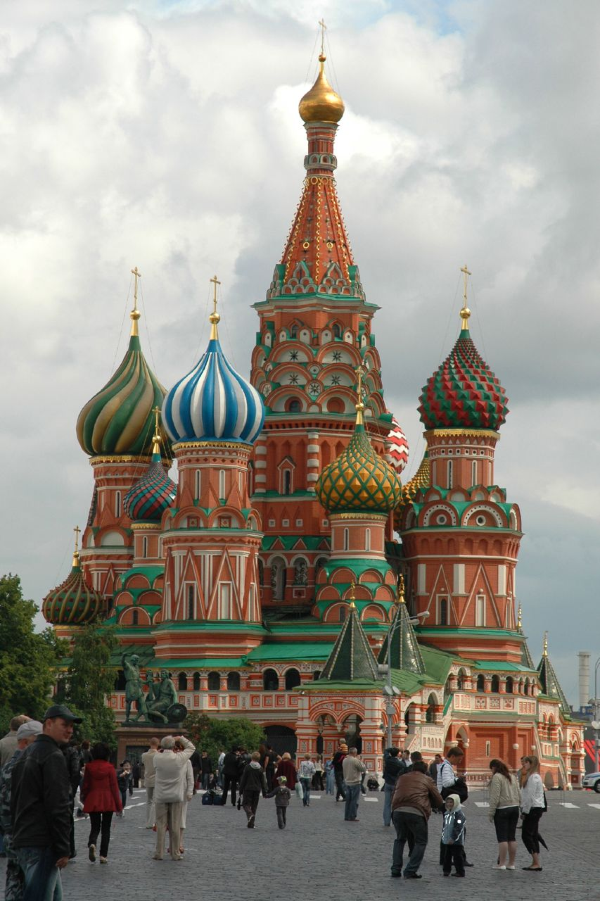 Saint Basil's Cathedral in Moscow